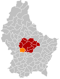 Own edit of Kanton MerschLocatie.png